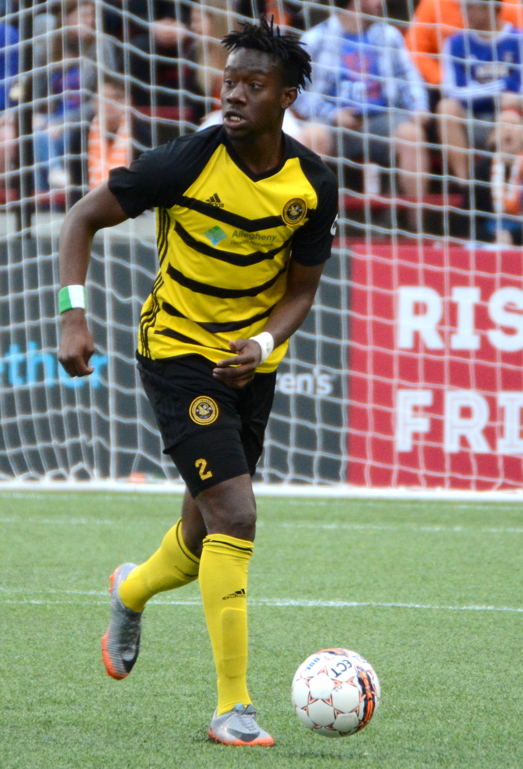 Taken during a USL regular season match between FC Cincinnati and Pittsburgh Riverhounds at Nippert Stadium in Cincinnati, USA on April 21, 2018.